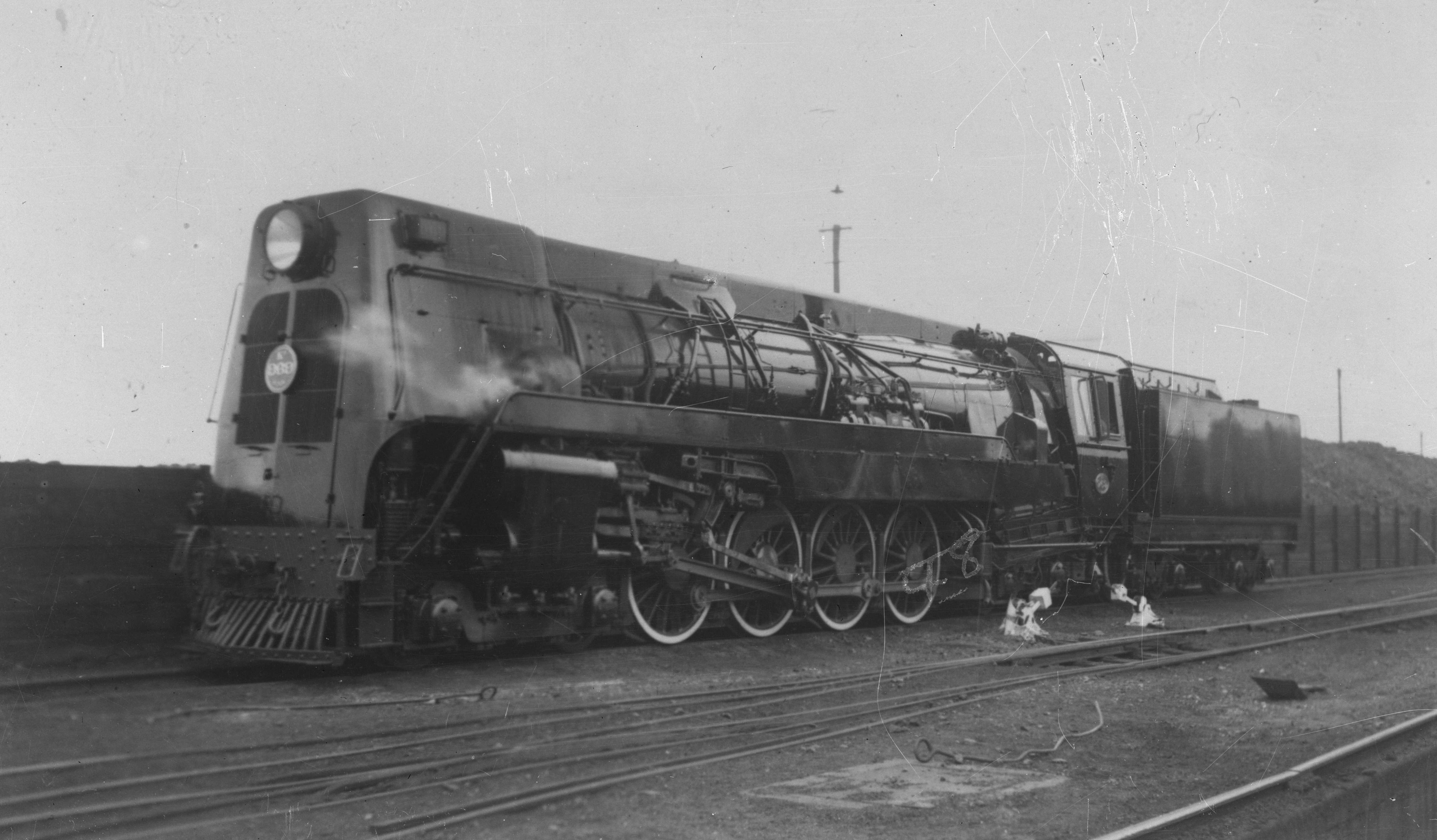 "Kb" 969, a Kb class steam locomotive, 4-8-4 type, probably photographed by Stanley Arthur Rockliff, ca 1940.